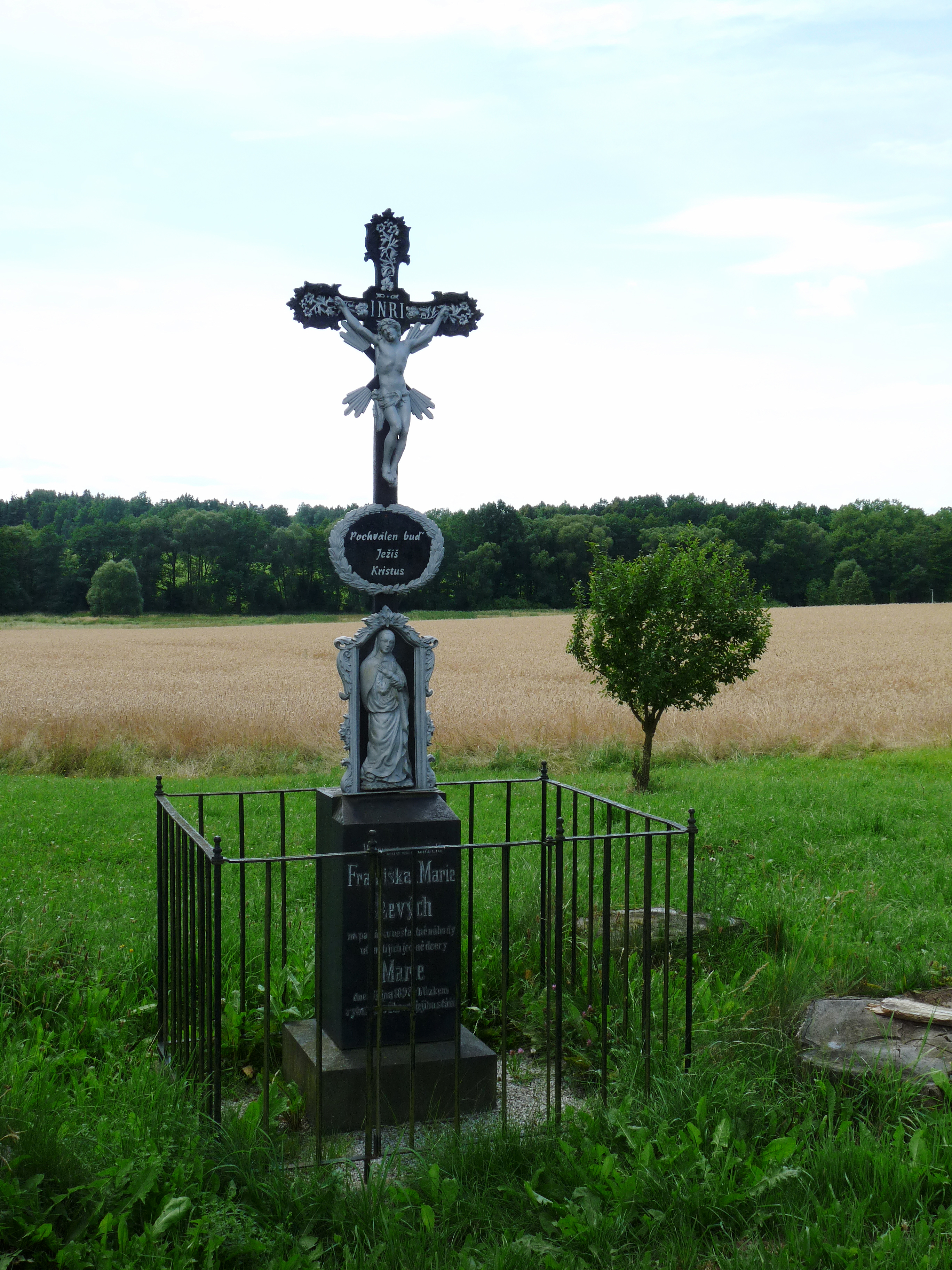 Wayside cross in the village of Nová Ves, České Budějovice District, Czech Republic.